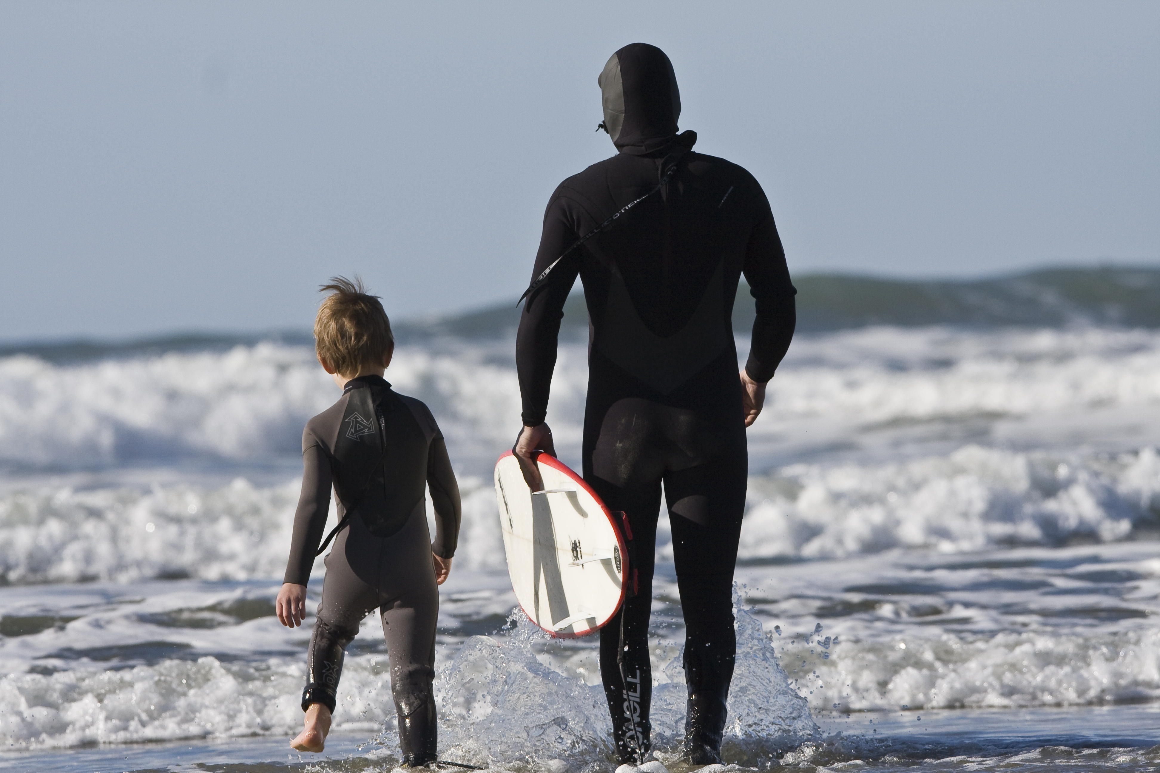 Description by Mike Baird at Flickr: "Father and son surf lesson in Morro Bay, CA. Father is Ben Monmonier, son is Julian Boqha Monmonier. I like this wholesome family-oriented series of 12 images of a father and his son bonding during a surf lesson. They had a great time, and the little grom Julian took the new surf name Boqha to commemorate this step in his life. Boqha has great form and is a natural. Watch for future commercial endorsements for this athlete. The father gave me permission to photograph their entire surf lesson today 21 Dec 2007 Friday 21dec2007 - Photo by Mike Baird, Canon 40D with 300mm f/2.8 IS lens handheld". The whole series is available here under CC-BY license. Other pictures at the Commons: No.11